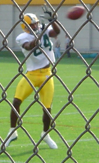 NFL wide receiver Javon Walker in 2004 training camp with the Green Bay Packers.